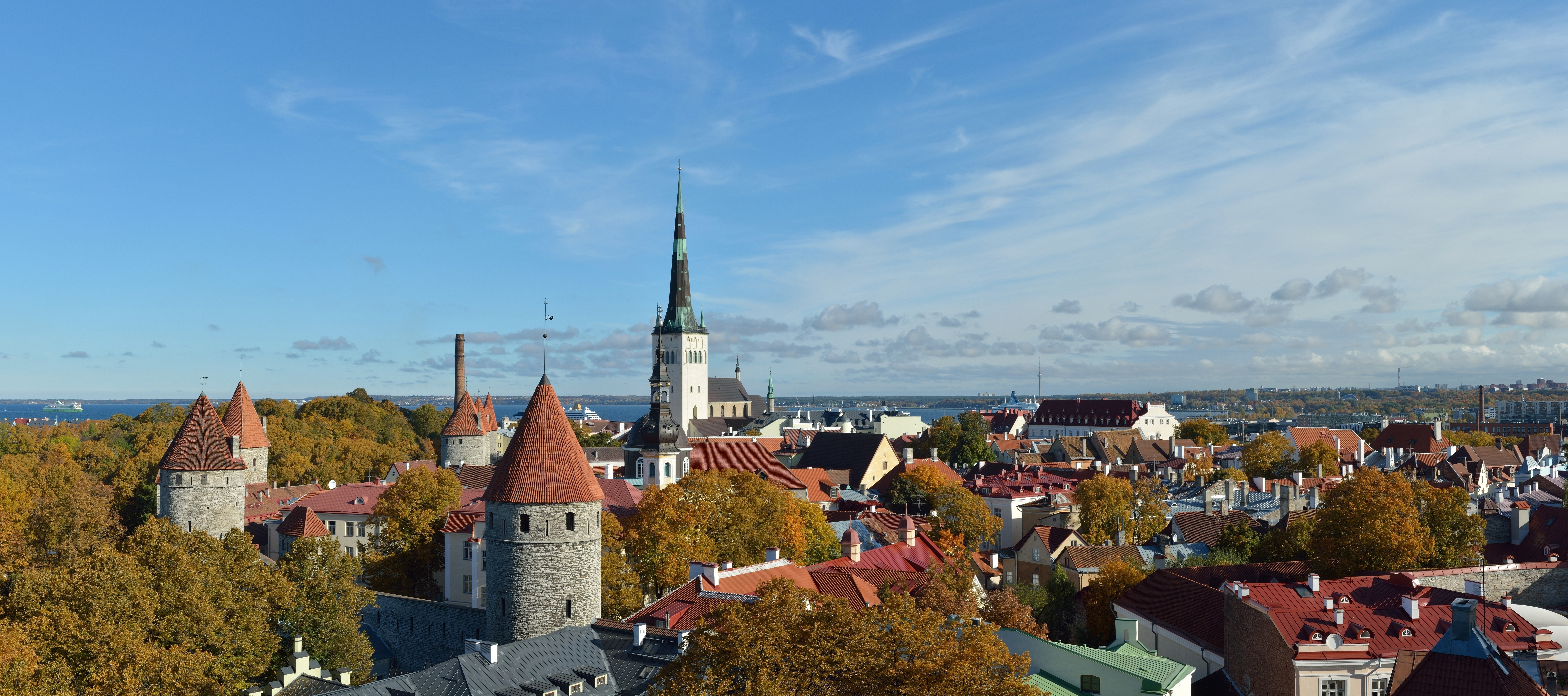 Old Town of Tallinn, Estonia, from Patkuli viewing platform. Includes the city walls